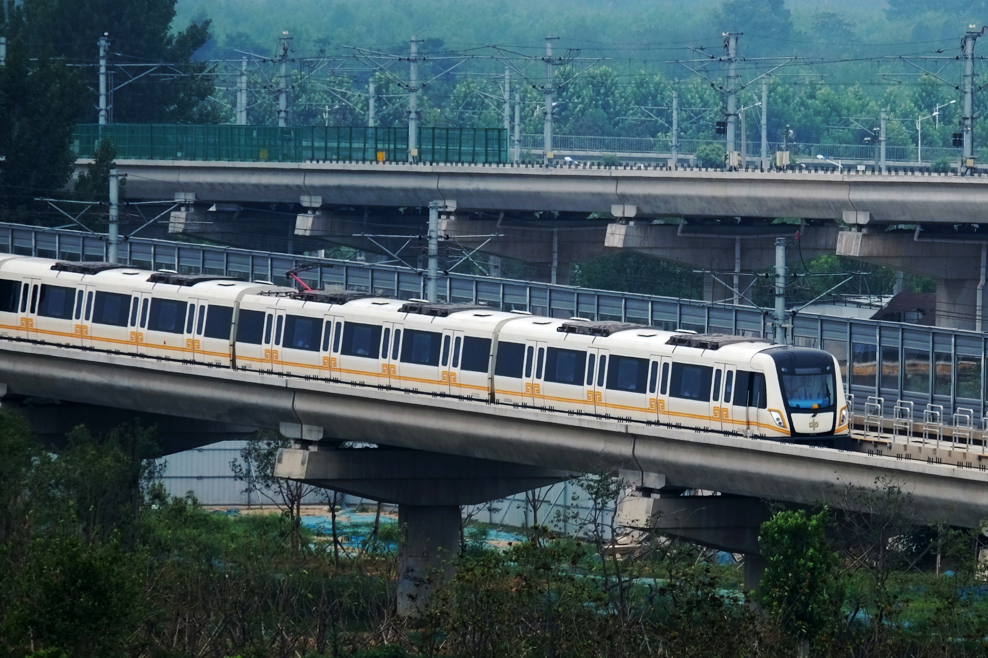 A train on Zhengzhou Metro Chengjiao Line approaching Mengzhuang Station